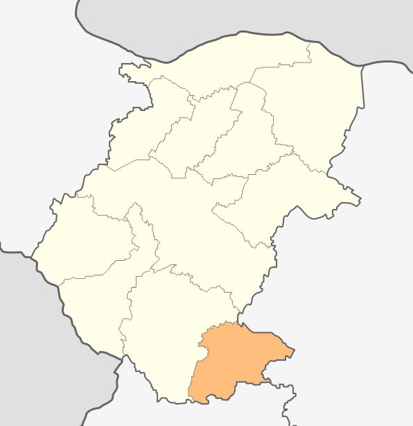 Map of Varshets municipality, Montana Province